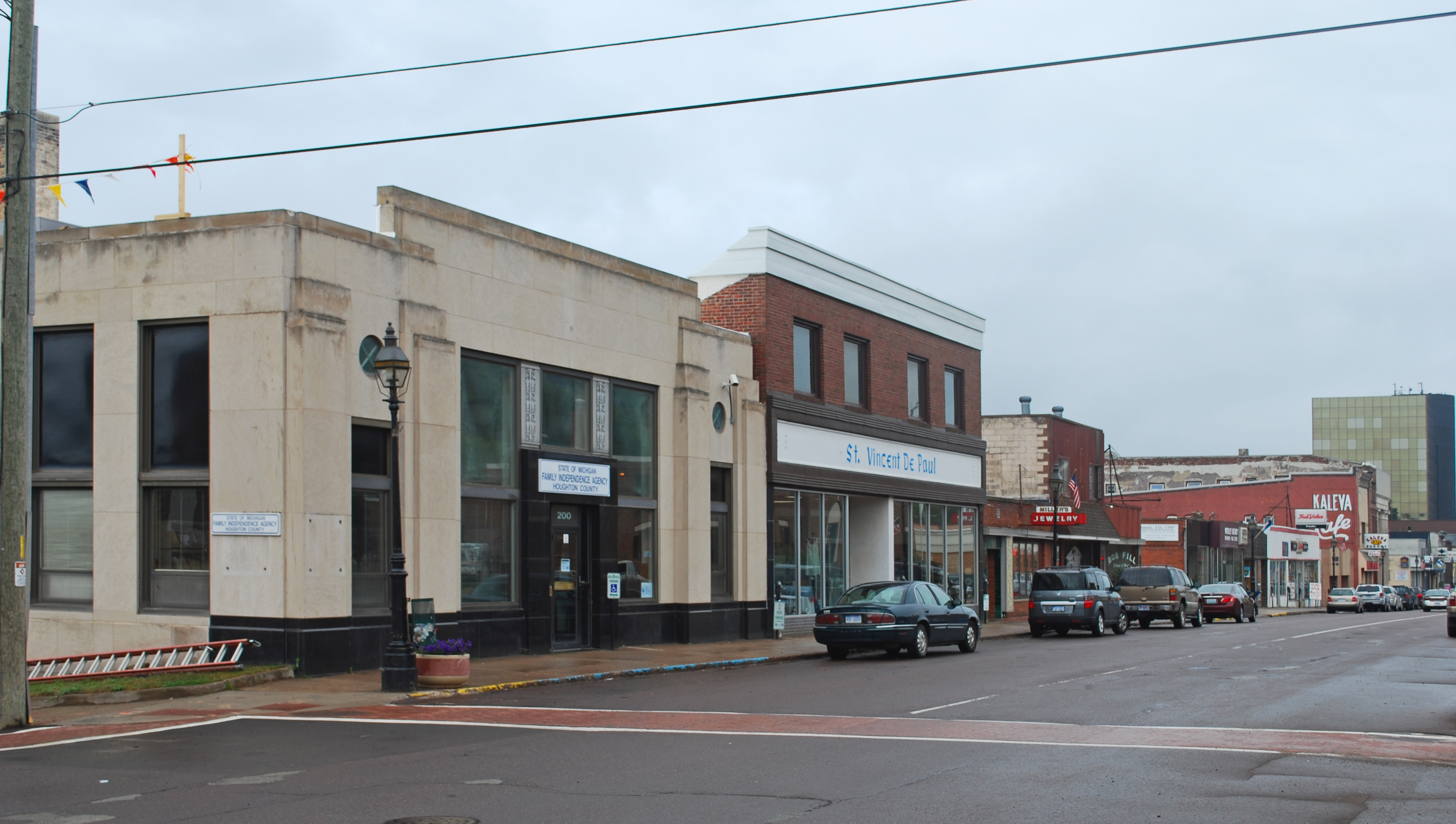 Quincy Street Historic District Hancock MI 200 block South side